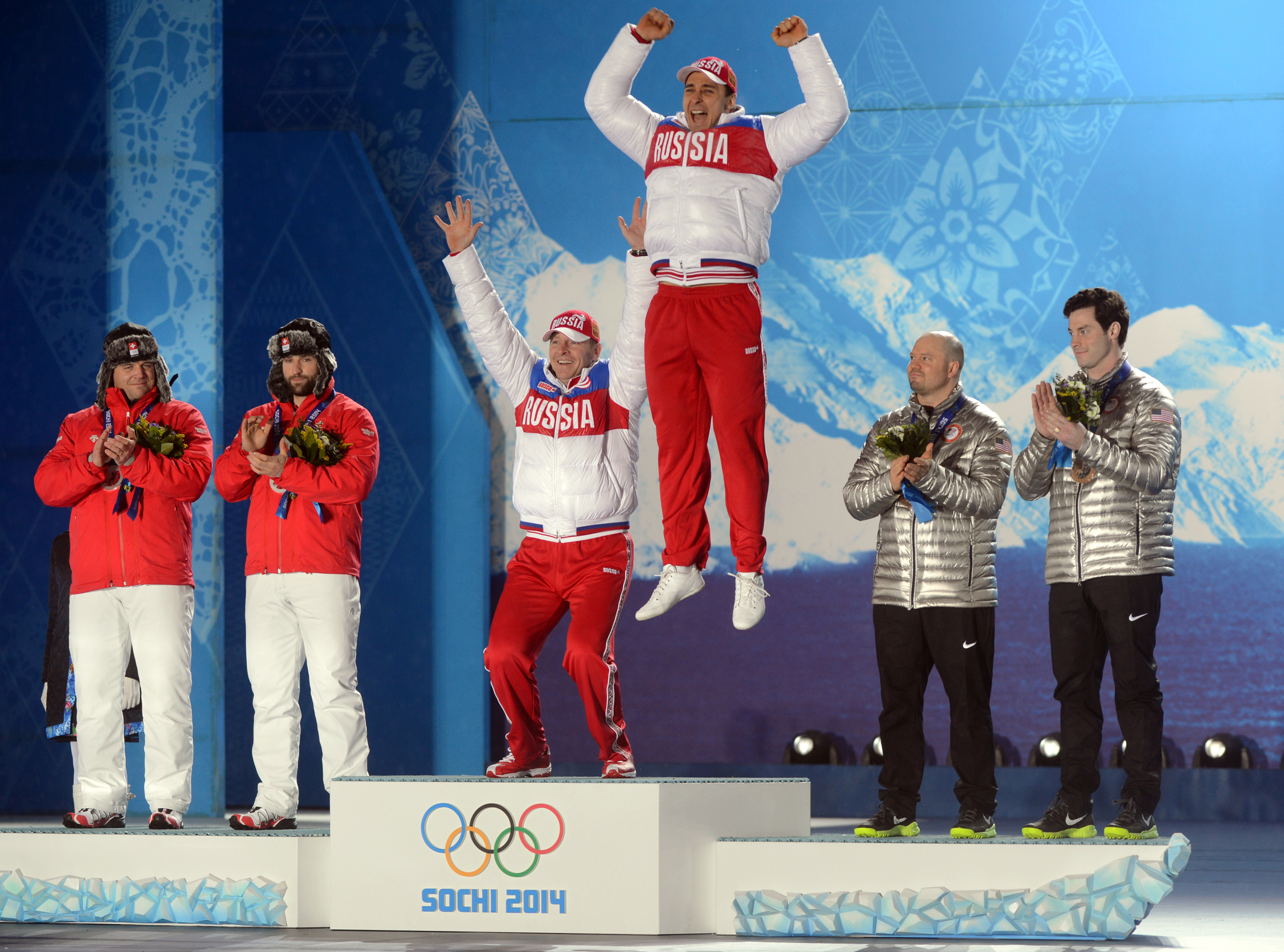 Russian Federation bobsleigh brakeman Alexey Voevoda displays his vertical alongside driver Alexander Zubkov as they mount the podium to receive Olympic gold medals in two-man bobsleigh Feb. 18 at Olympic Park in Sochi, Russia. Former U.S. Army World Class Athlete Program Soldier Steven Holcomb (to the right of Voevoda) and Steve Langton claimed the bronze for Team USA, and the Swiss duo of Beat Hefti and Alex Bamumann (far left) took the silver.